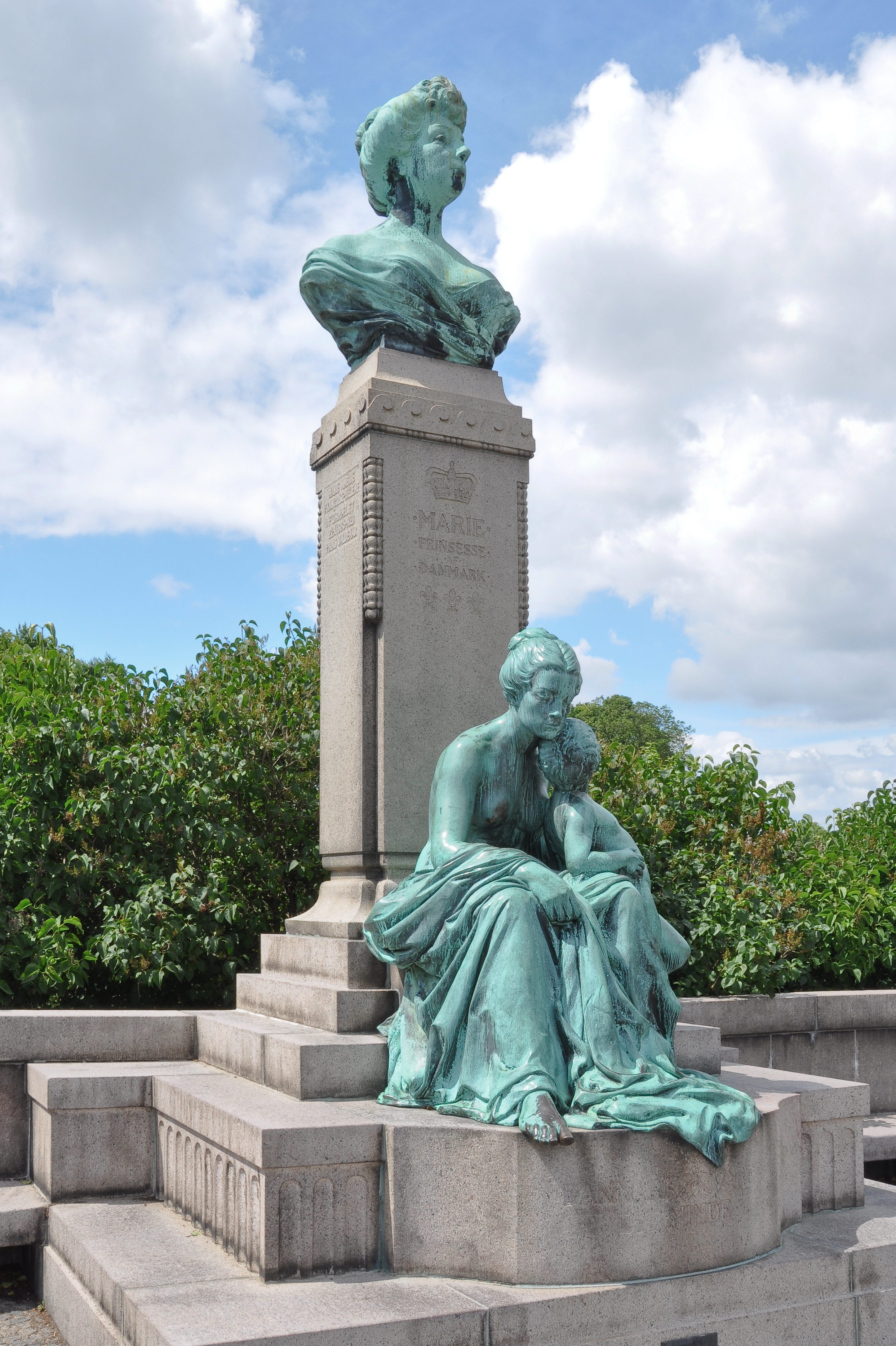 Bust and statue of Princess Marie of Orléans at Langelinie, Copenhagen. Made in 1912 by Danish sculptor Carl Martin-Hansen (1877-1941).